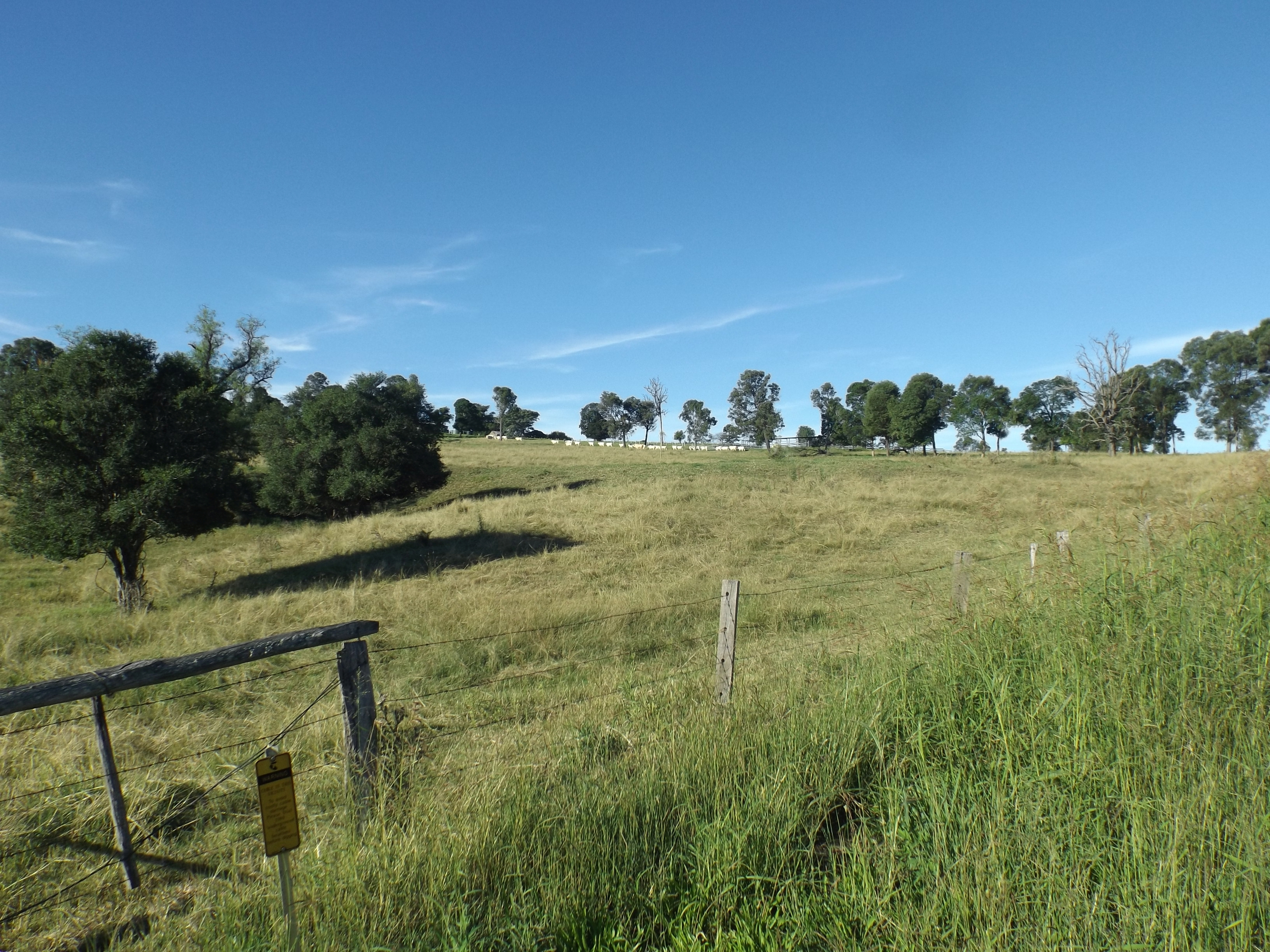 Photo of a farm along Teviotville Road at Teviotville, Scenic Rim Region, Queensland, Australia.